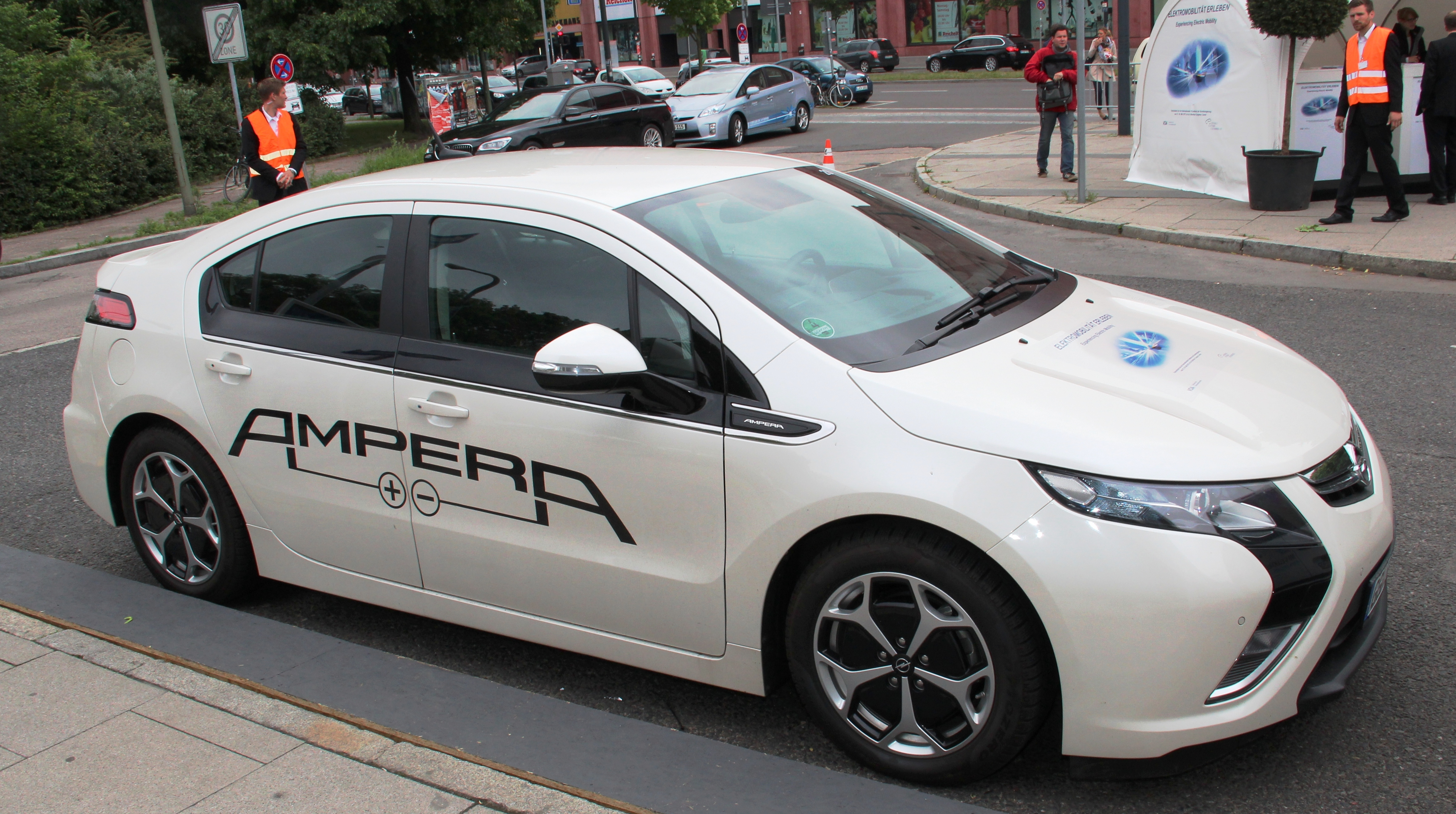 OPEL Ampera